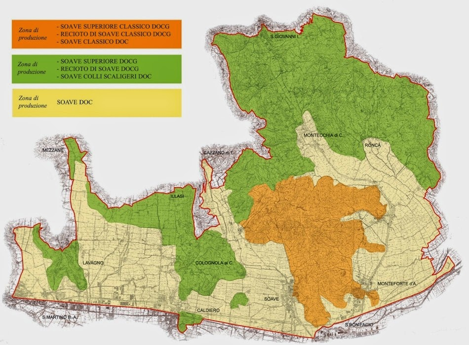 Production AREA of the DOC SOAVE